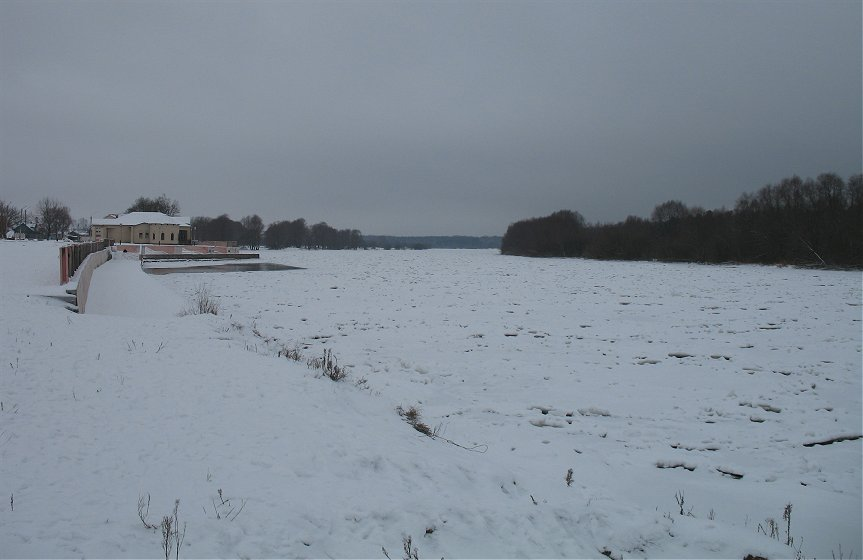 River side view along river Berezina, of Svetlahorsk town, located in Gomel oblast, Belarus.